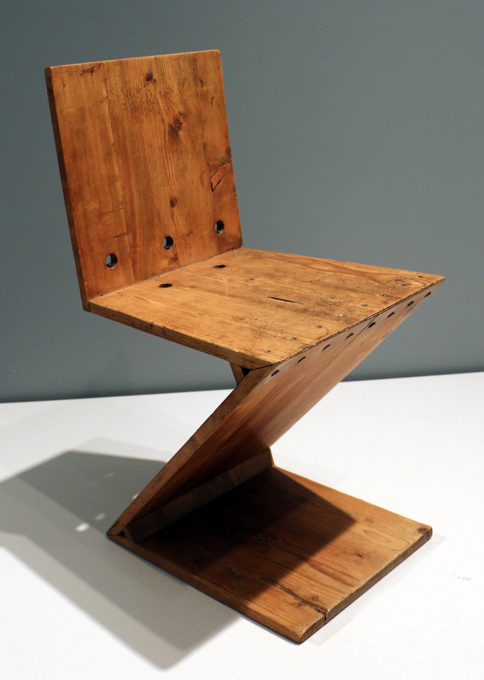 Applied arts in the Carnegie Museum of Art